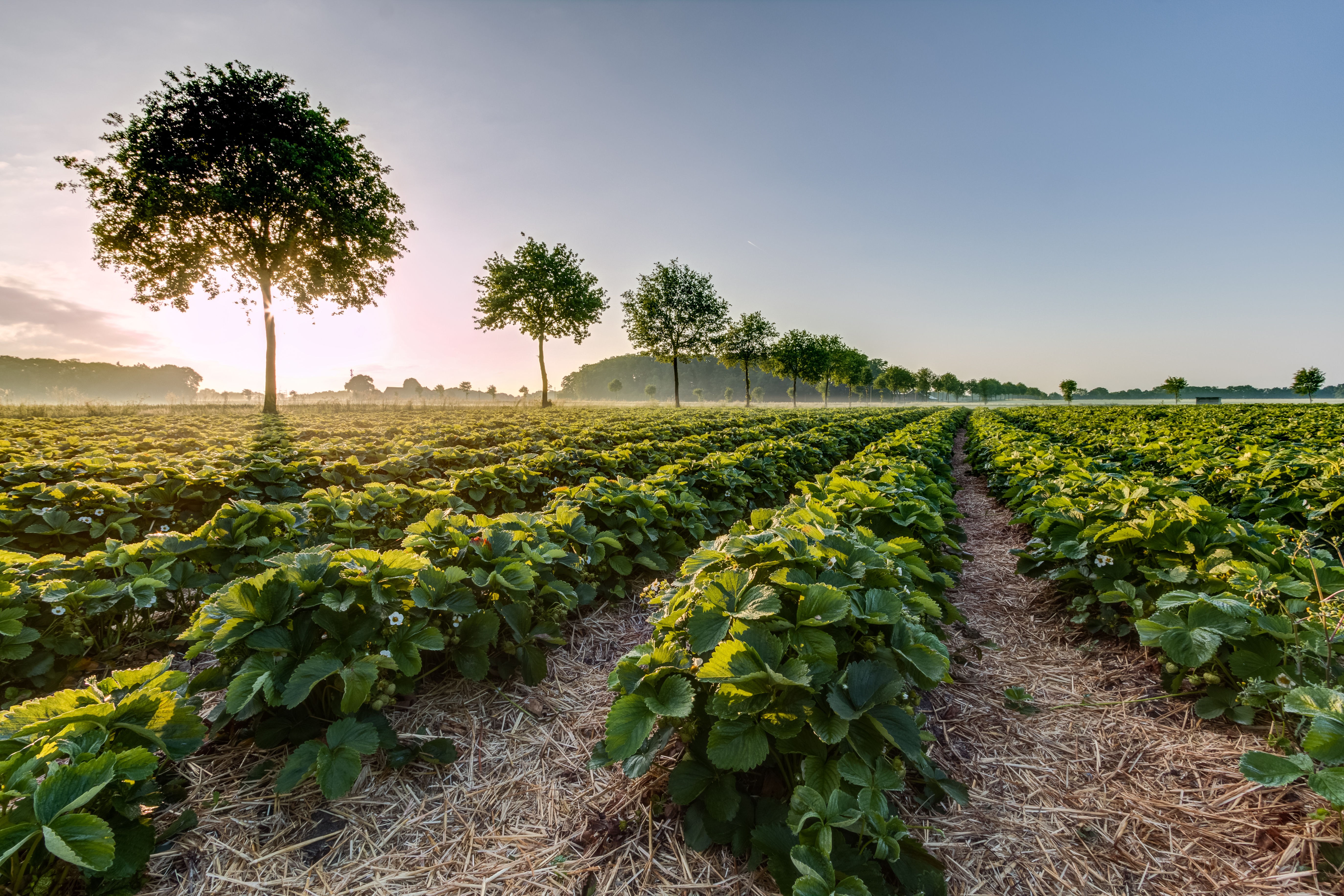 Strawberry Field in the Dernekamp hamlet, Kirchspiel, Dülmen, North Rhine-Westphalia, Germany